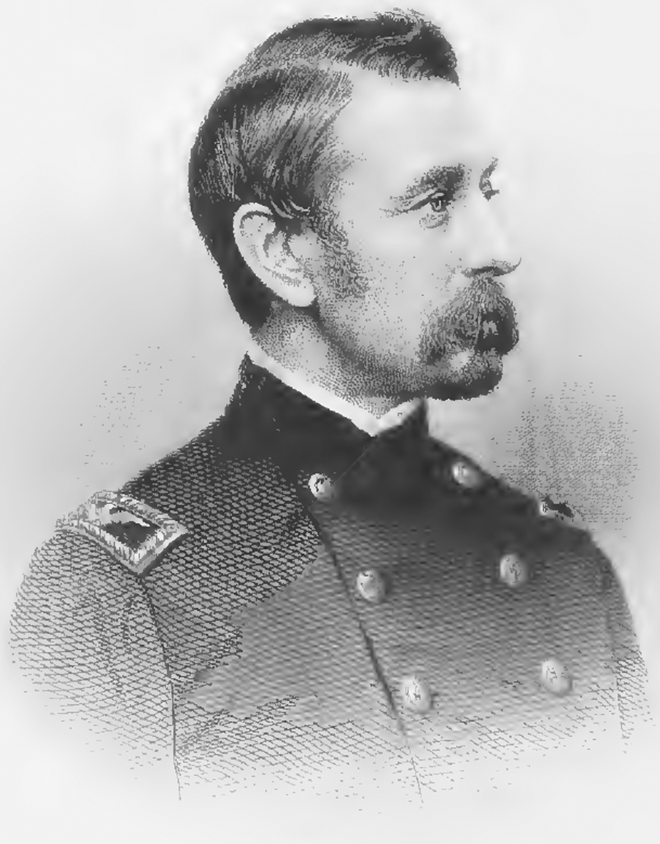 Marshall Lefferts (1821-1876)